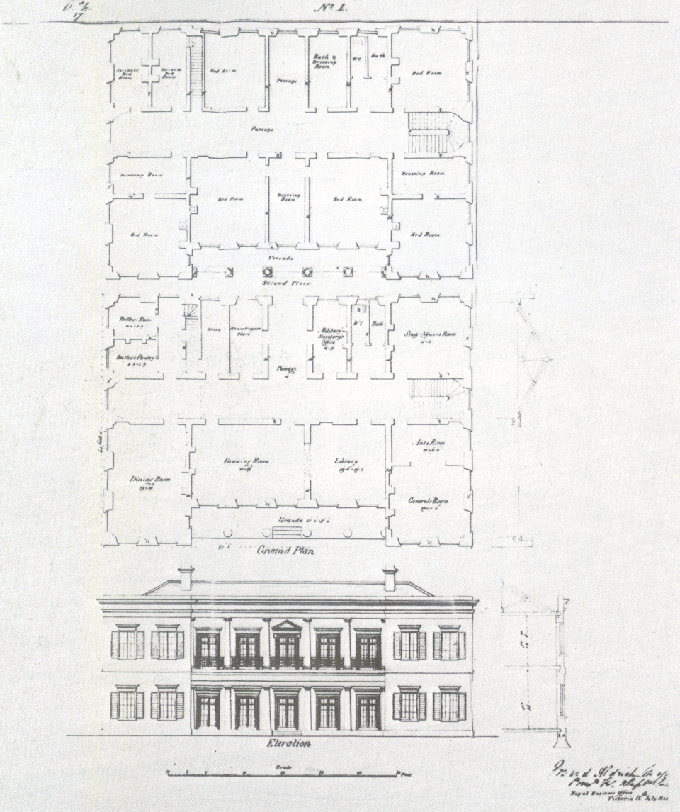 The Original Plan of Flagstaff House, Hong Kong, drawn in 1844